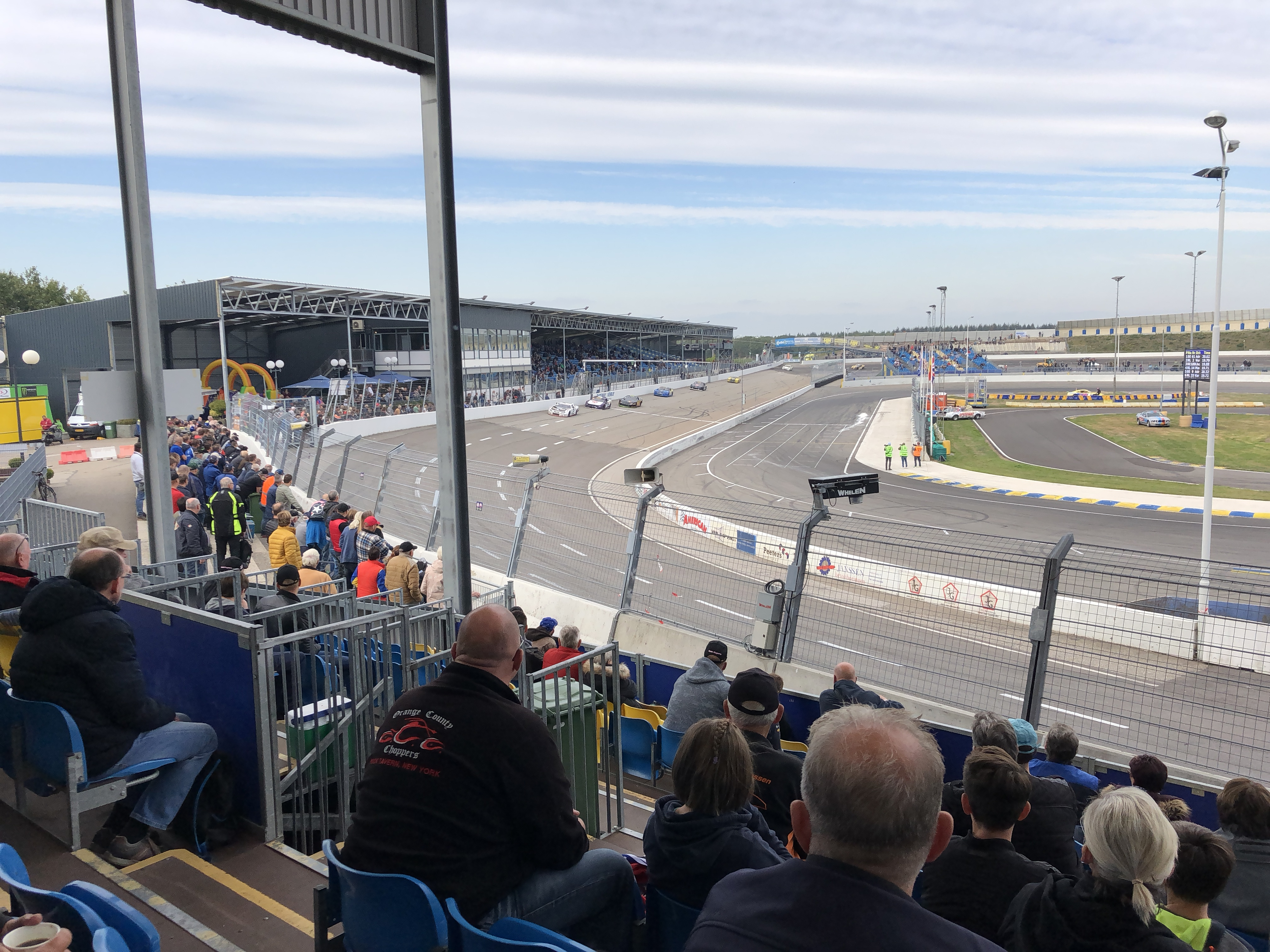 Raceway Venray - European Late Model Series